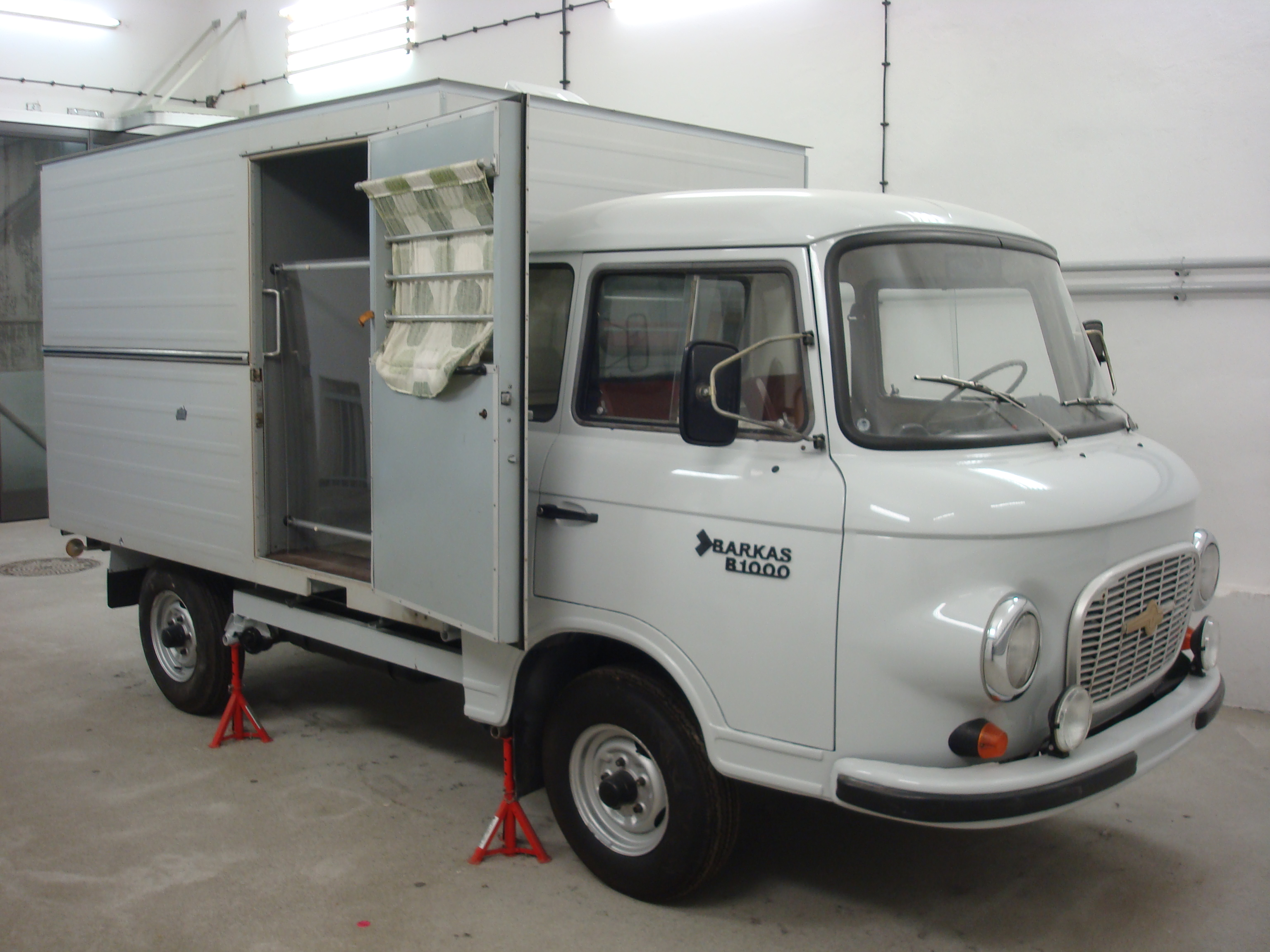 Barkas B1000 prisoner transport van used by the GDR state security forces (Stasi). On display at the Hohenschönhausen prison memorial in Berlin.